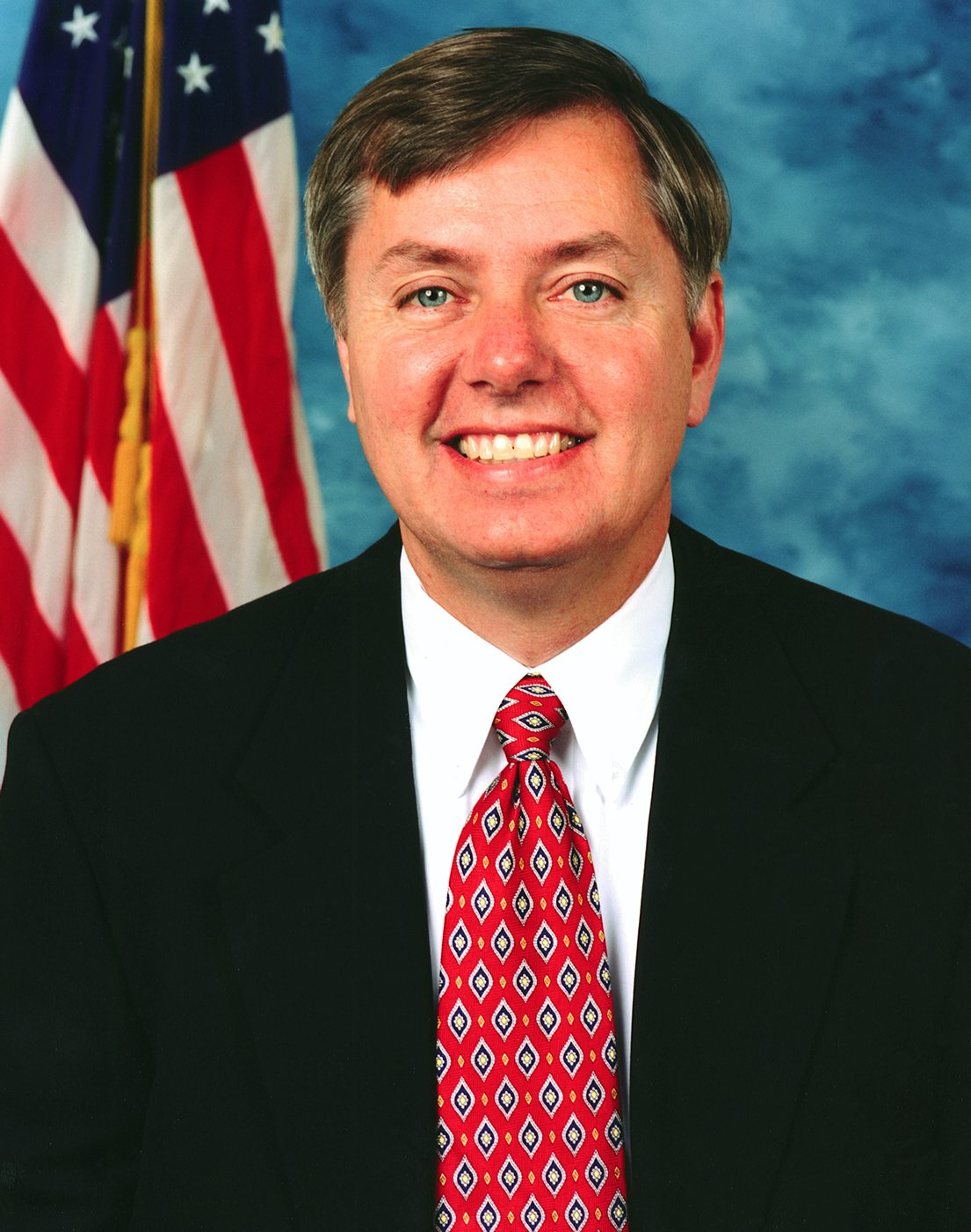 Lindsey Graham, U.S. Senator from South Carolina.